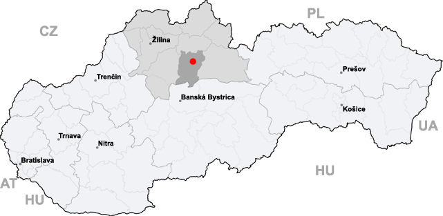 map of Slovakia, city of Ružomberok highlighted